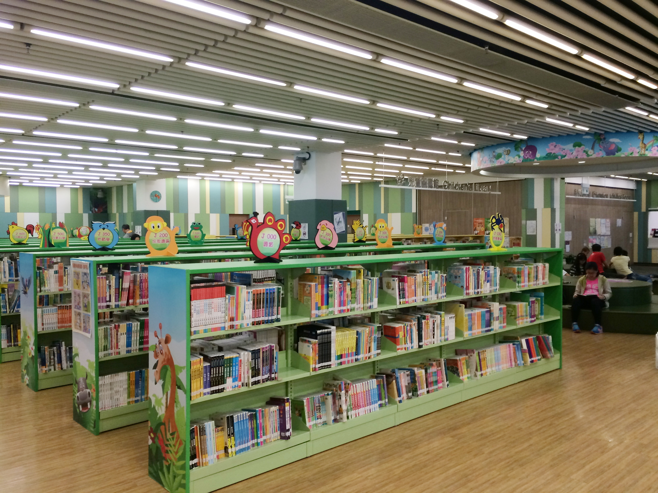 Lam Tin Public Library Children Library